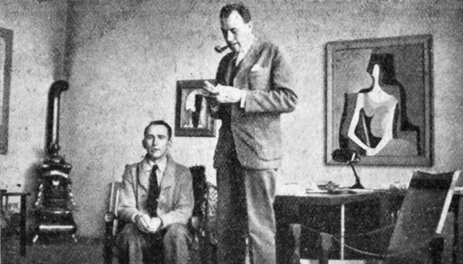 Painter František Muzika (1900-1974, left) and sculptor Bedřich Stefan (1896-1982) in Muzika's studio.